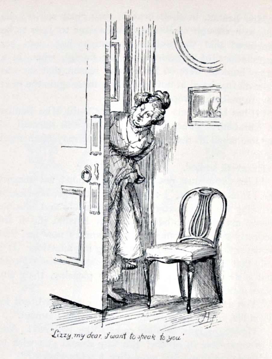 "Lizzy, my dear, I want to speak to you" - Mrs. Bennet trying to get Mr. Bingley and Jane alone. Austen, Jane. Pride and Prejudice. London: George Allen, 1894.